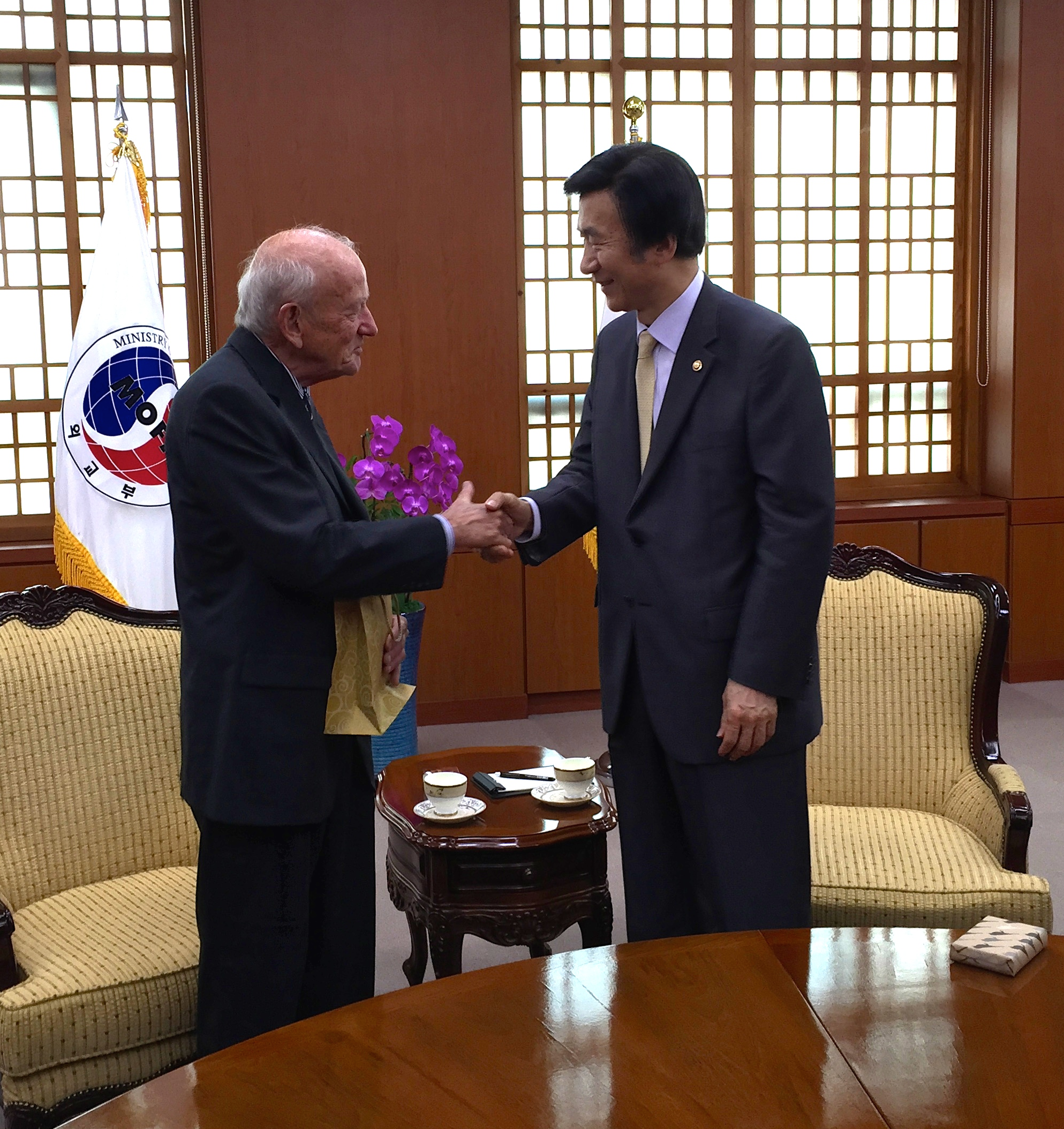 Professor John Curtis Perry meeting with the Minister of Foreign Affairs of Korea Yun Byung-se in 2015. The meeting took place in the headquarters of the ministry.